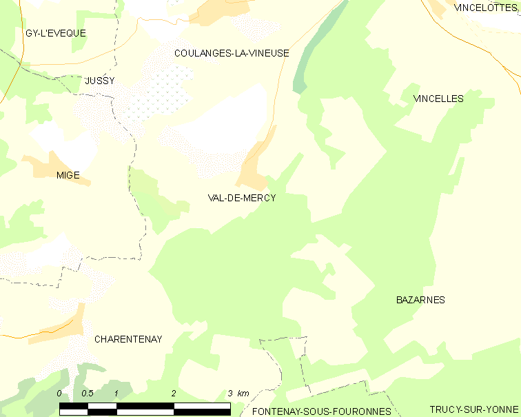 Map of French municipality Val-de-Mercy